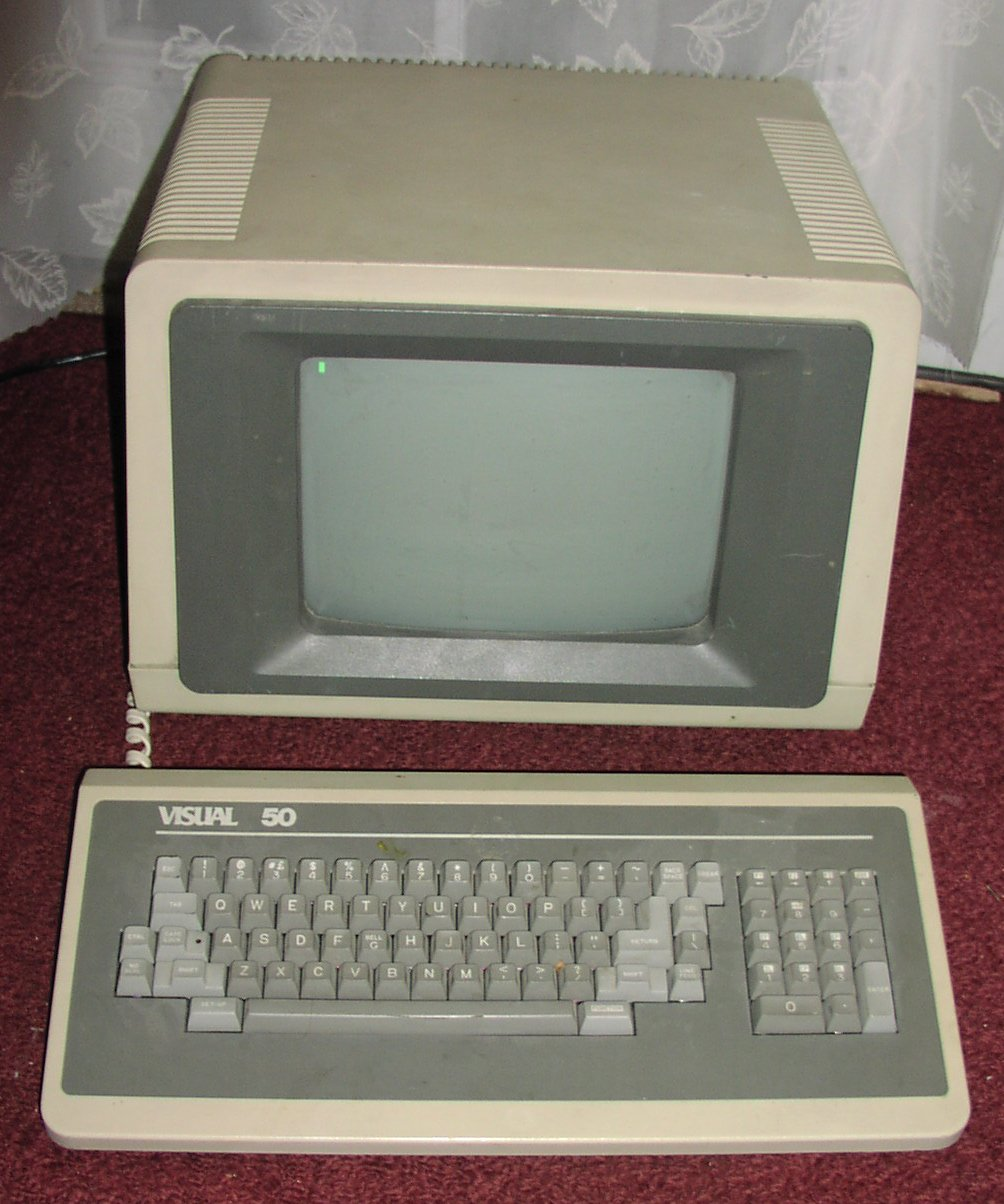 Vintage Computer Visual 50, SGS Z80A CPU